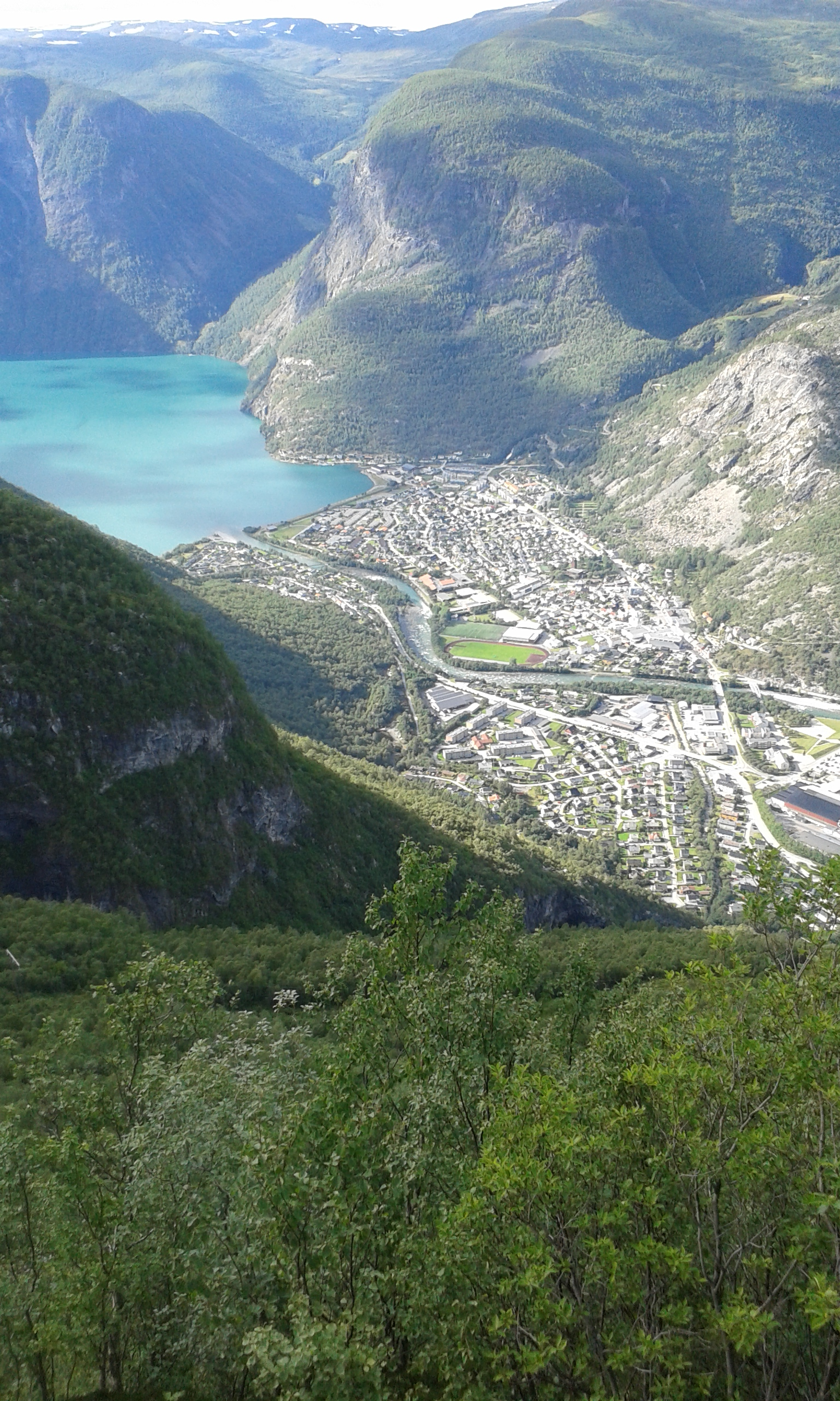 Foledman own work The view of Blåberg from the 1000 meteren road